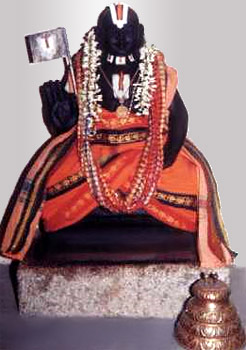 Yamunacharya(Alavandar), Acharya of Sri Vaishnava sampradaya & the predecessor of Ramanuja.